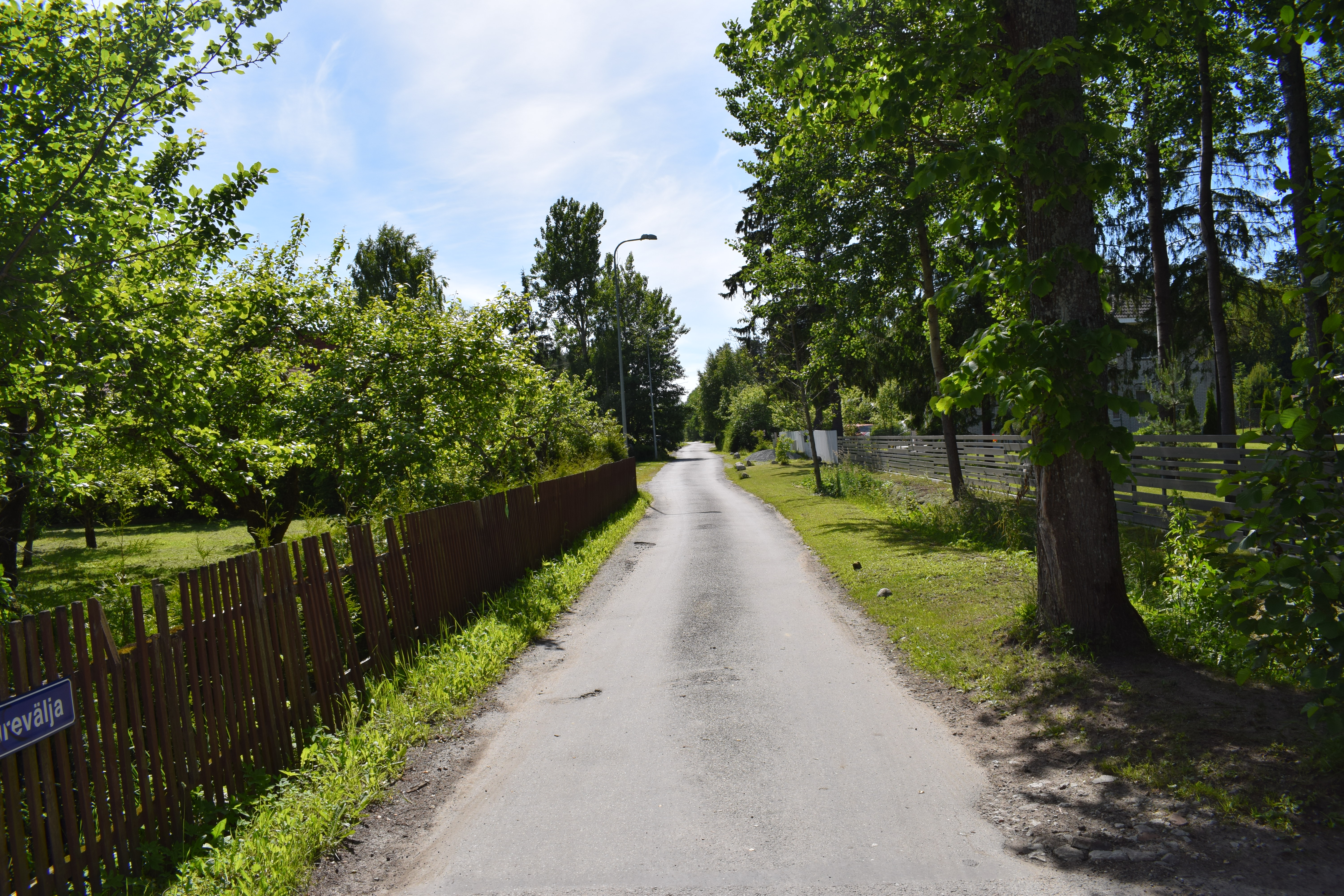 Suurevälja street